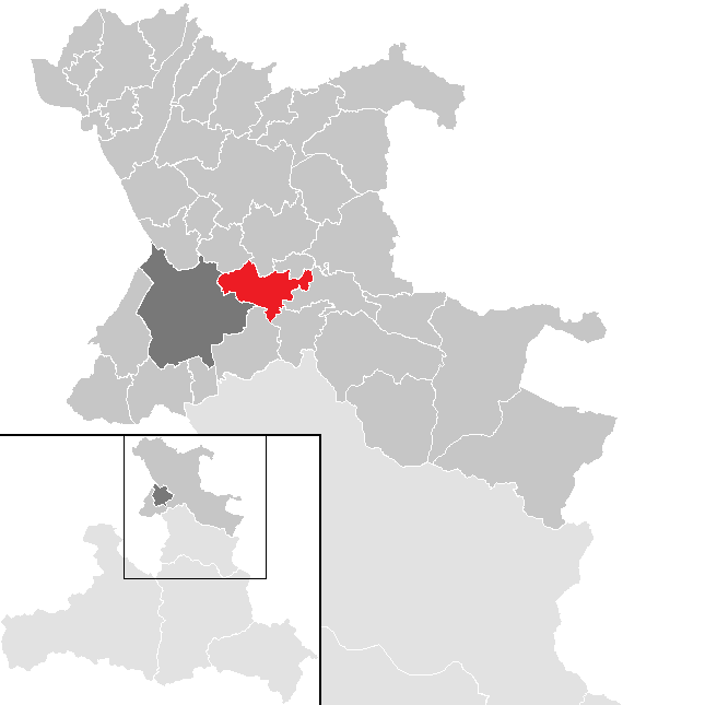 District Salzburg-Umgebung